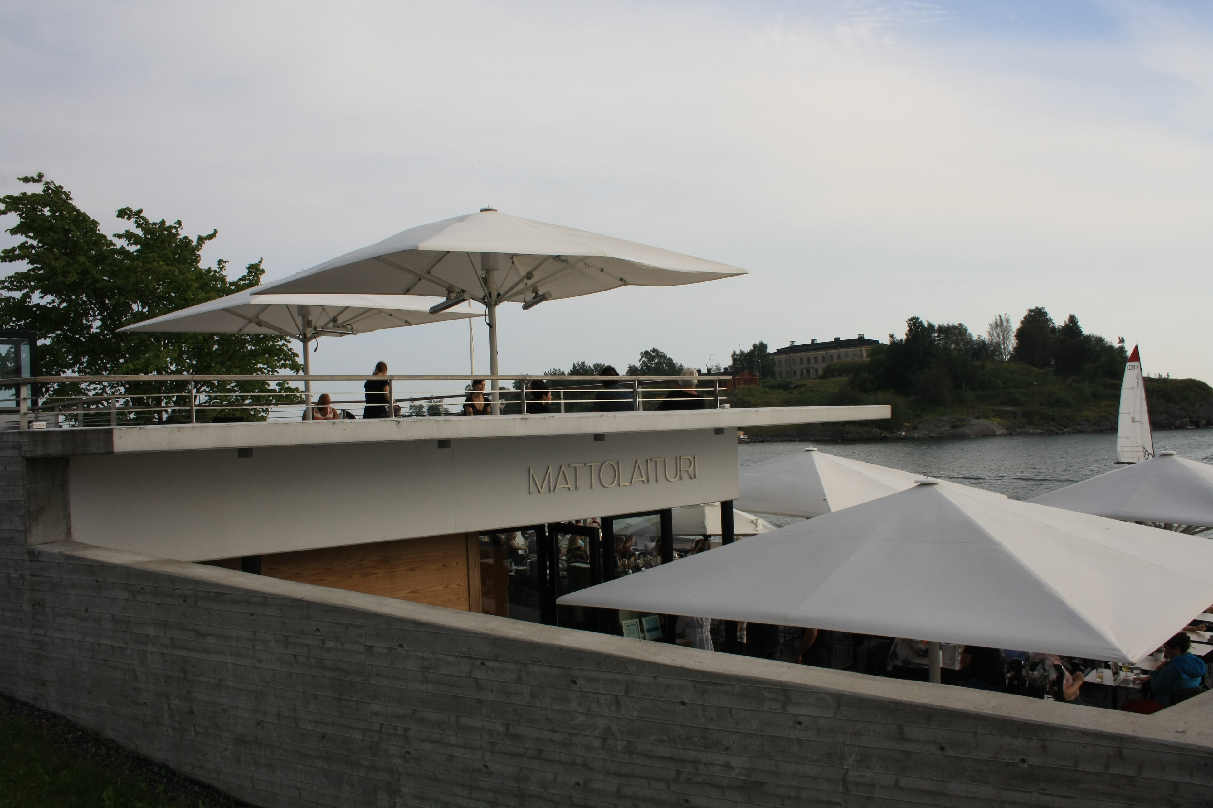 Café Mattolaituri in Helsinki